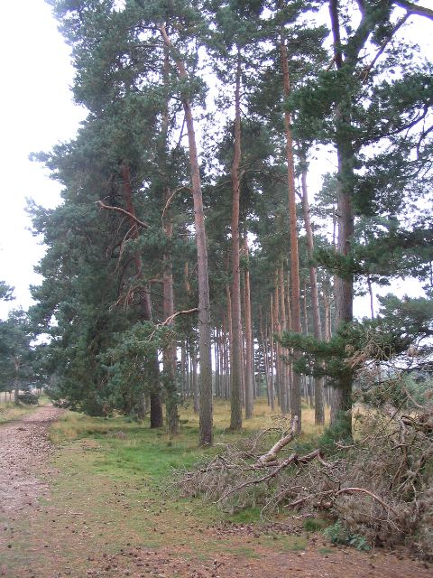 Pines at the edge of Ostler's Plantation Scots pines along the boundary between Ostler's Plantation and Kirkby Moor nature reserve.